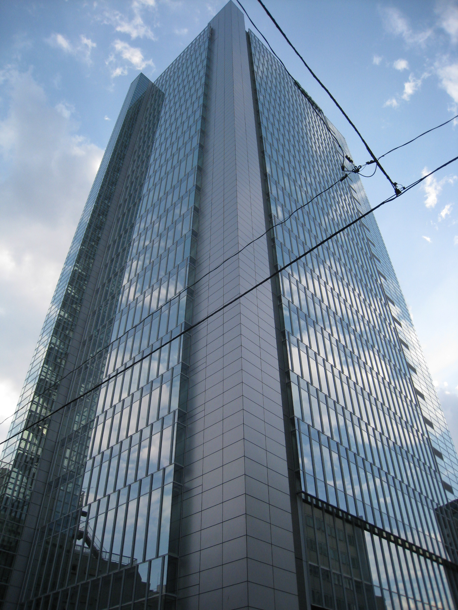 Headquarters of Gakken, at Nishi-Gotanda, Shinagawa, Tokyo, Japan.